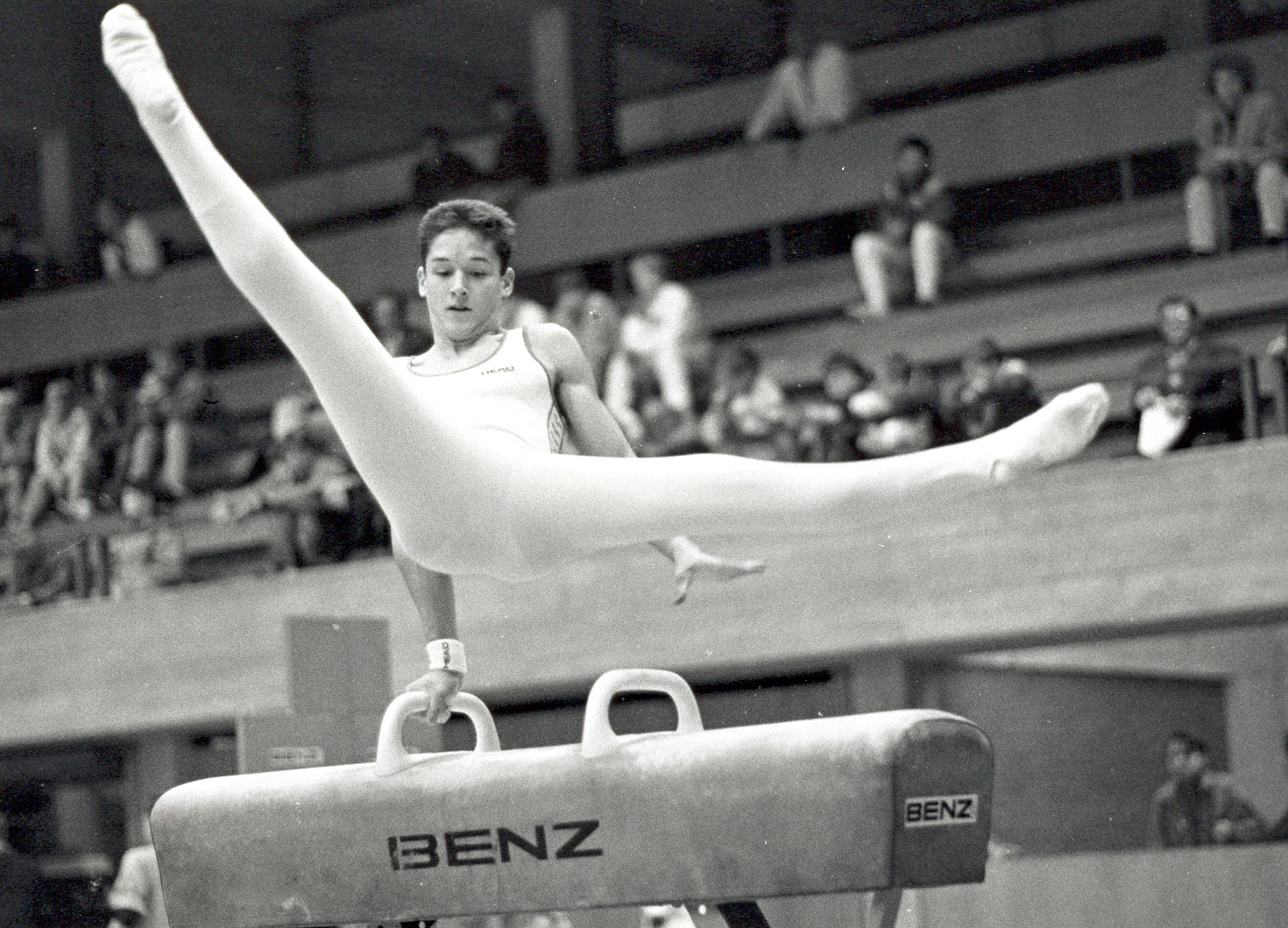 Gymnast Thomas Zimmermann/Vorarlberg/Austria, Pommel horse